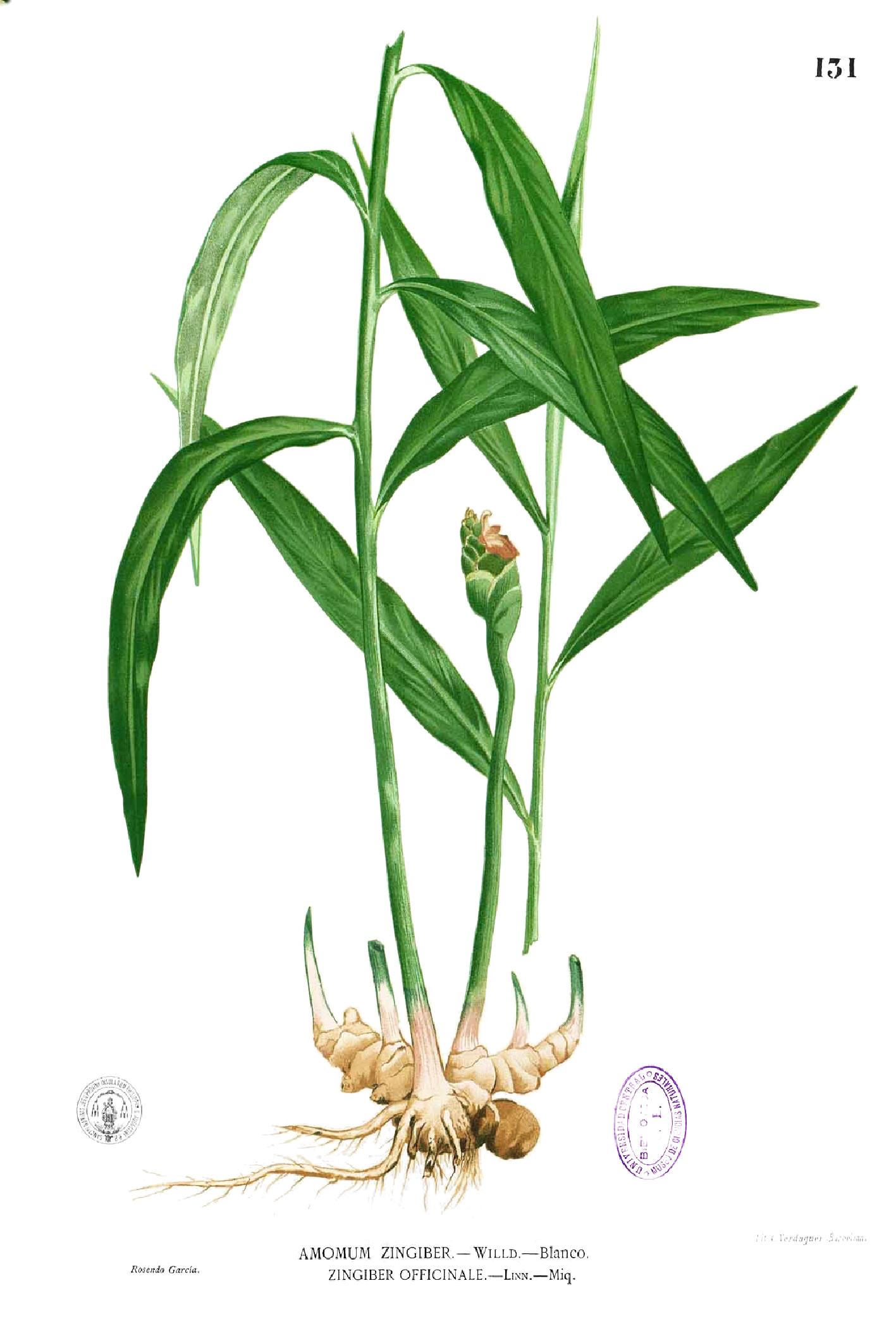 Plate from book